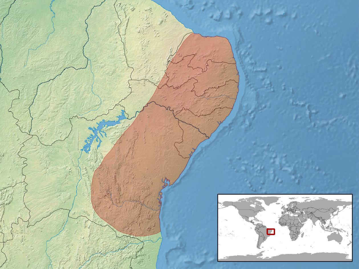 geographic distribution of Amphisbaena pretrei (Native: Brazil)